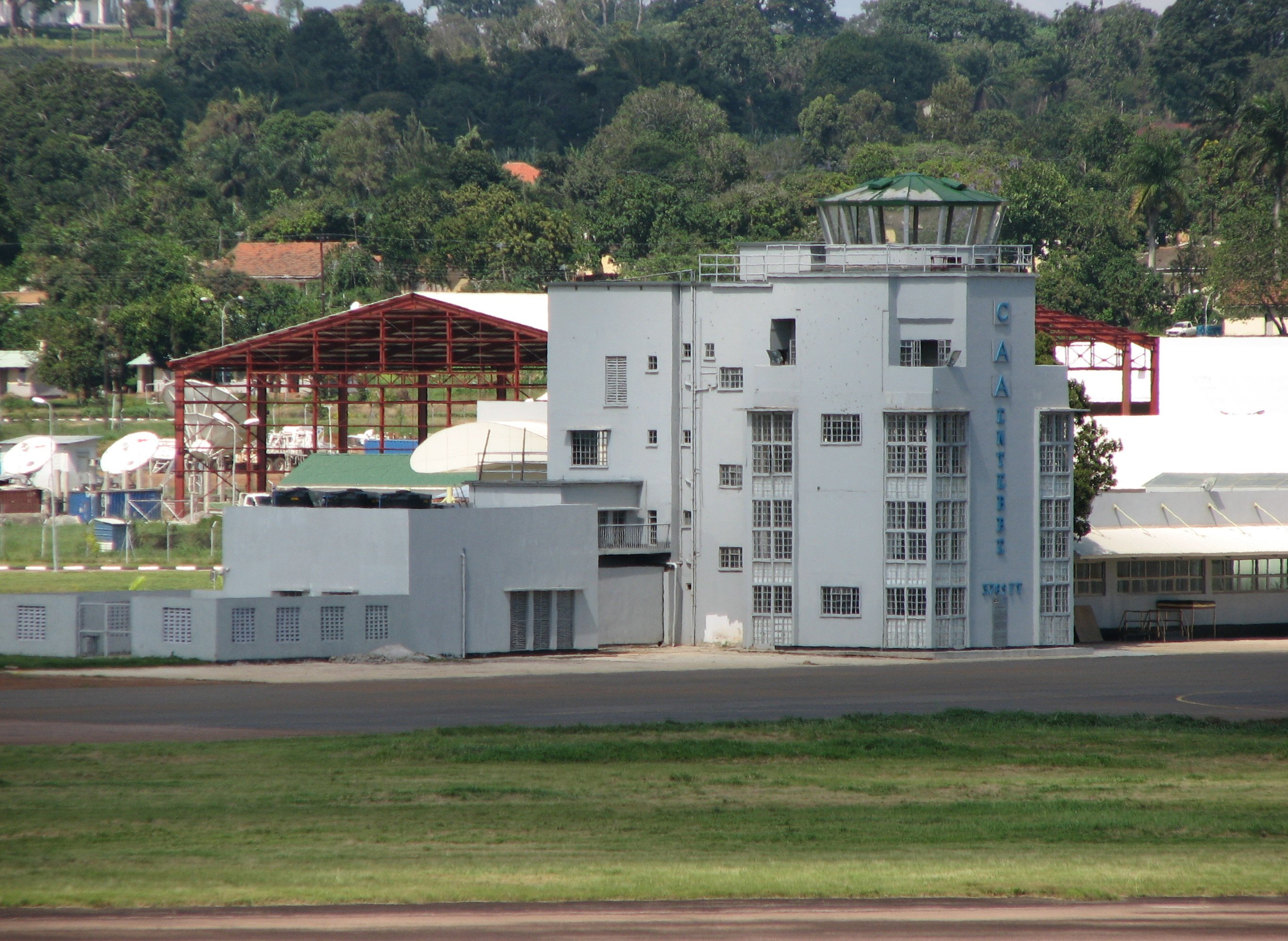 The old tower of Entebbe International Airport in Uganda. Now used as part of the military facility at the airport.